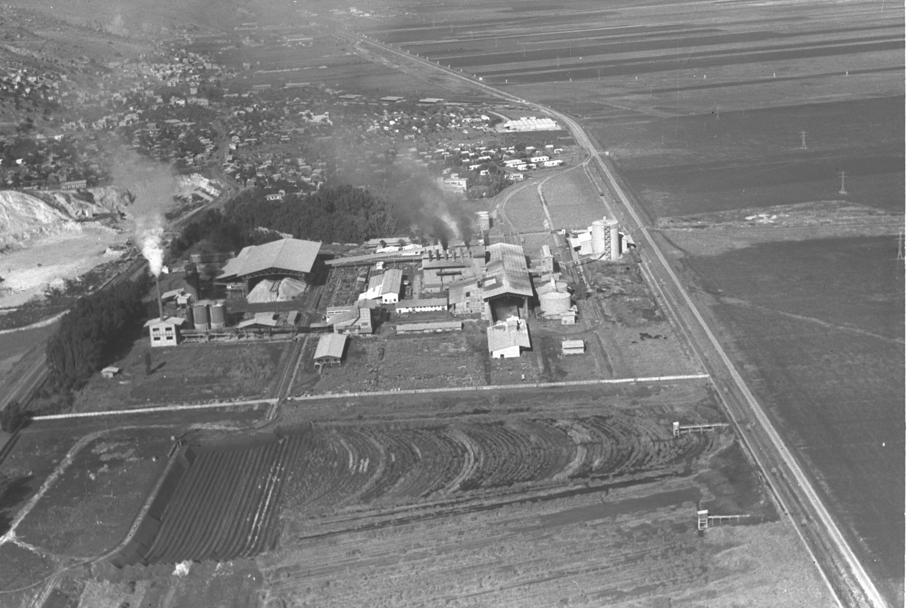 AN AERIAL VIEW OF THE "NESHER" CEMENT PLANT NEAR HAIFA. צילום אוויר של מפעל "נשר" למלט, ליד חיפה.